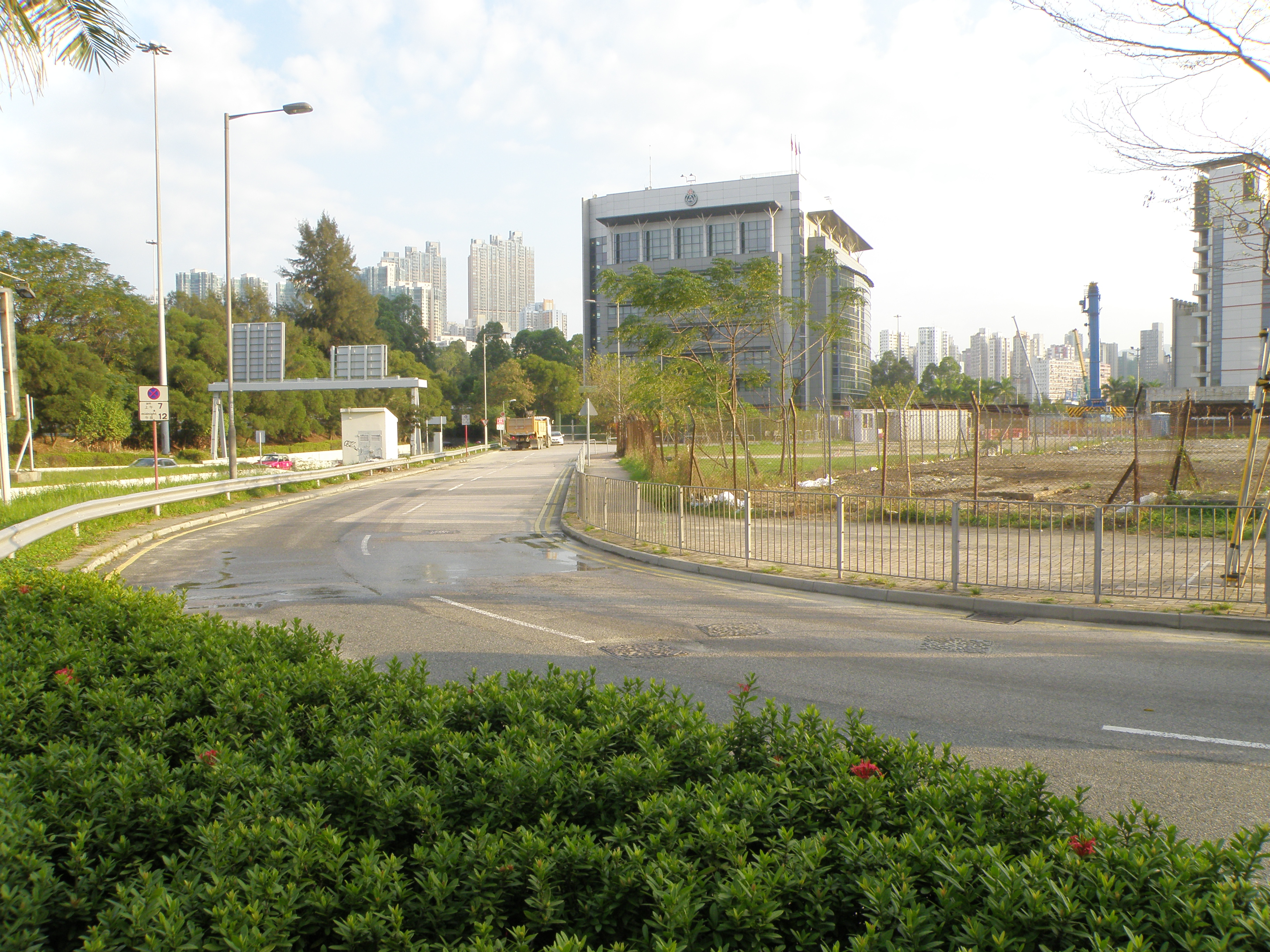 To Wah Road in West Kowloon, Hong Kong.